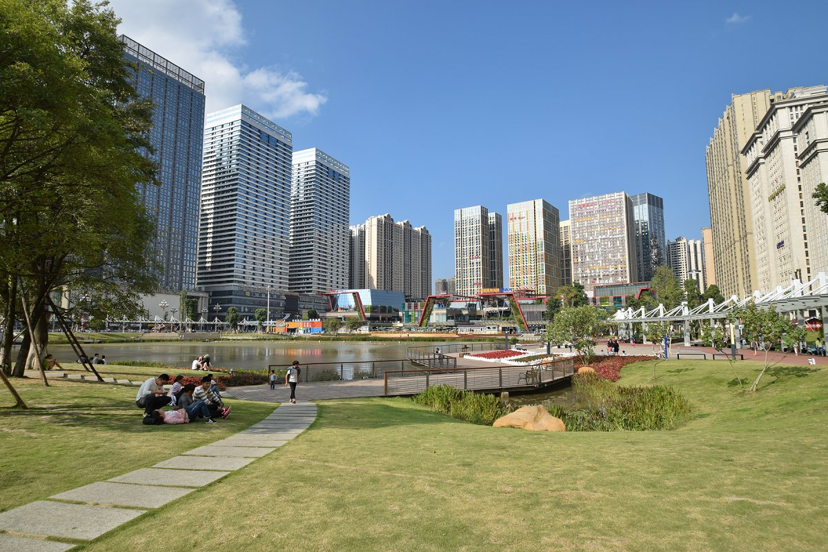 Huaguoyuan Wetland Park, Huaguoyuan CBD, Guiyang